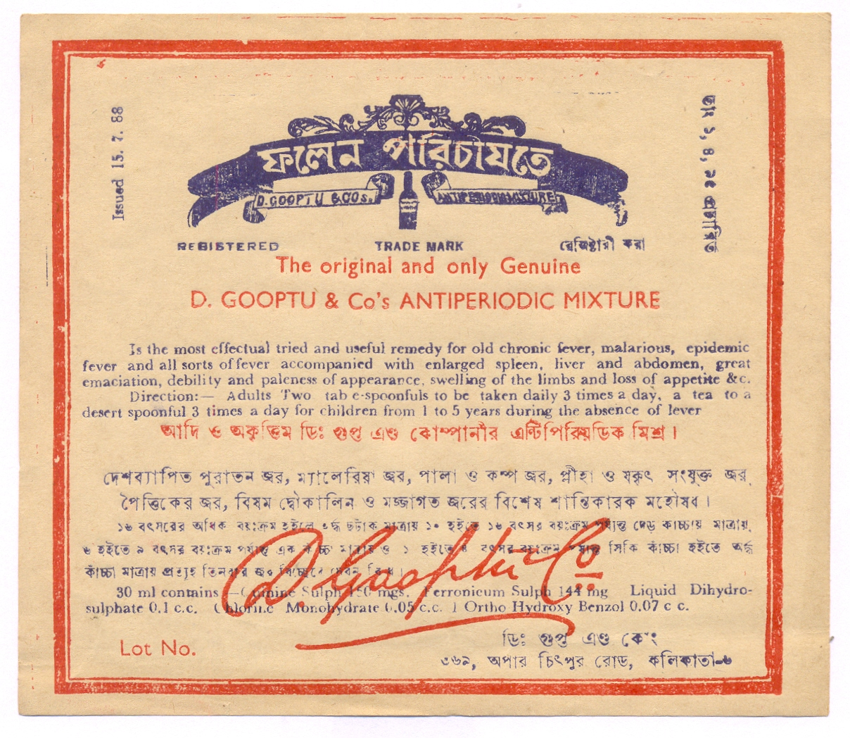 The Label used on the medicine bottle of D. Gooptu & Co's Antiperiodic Mixture.